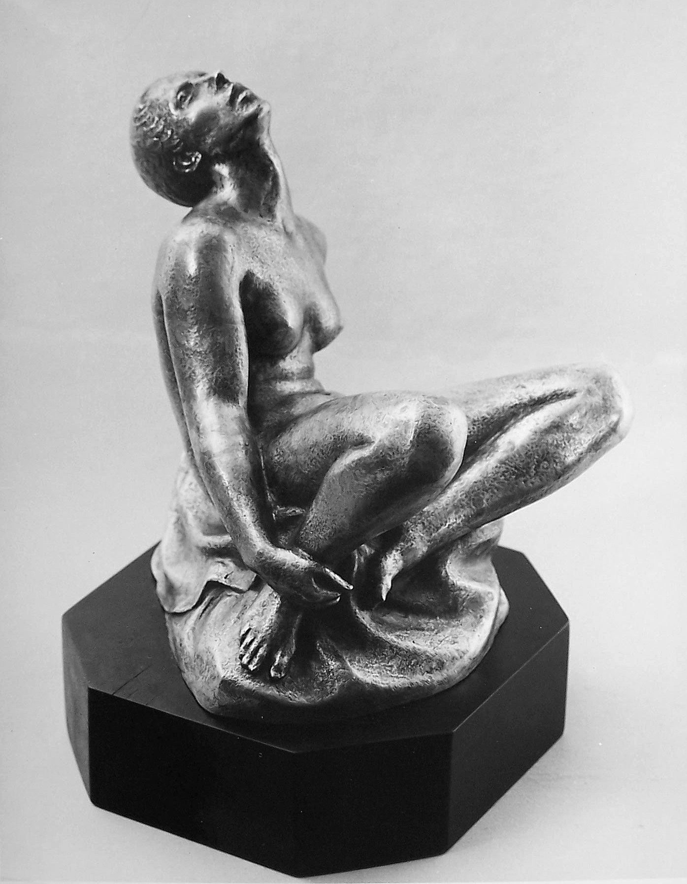 Silver statuette realized by american sculptor Cecil Howard in 1955 and presented at the Brooklyn Museum in New York. Entitled "The Star Gazer", the work is commissioned for a traveling exhibition called "Sculpture in Silver from Islands in Time", sponsored by a famous silversmith, and presenting silver sculptures from antiquity to the contemporary period.